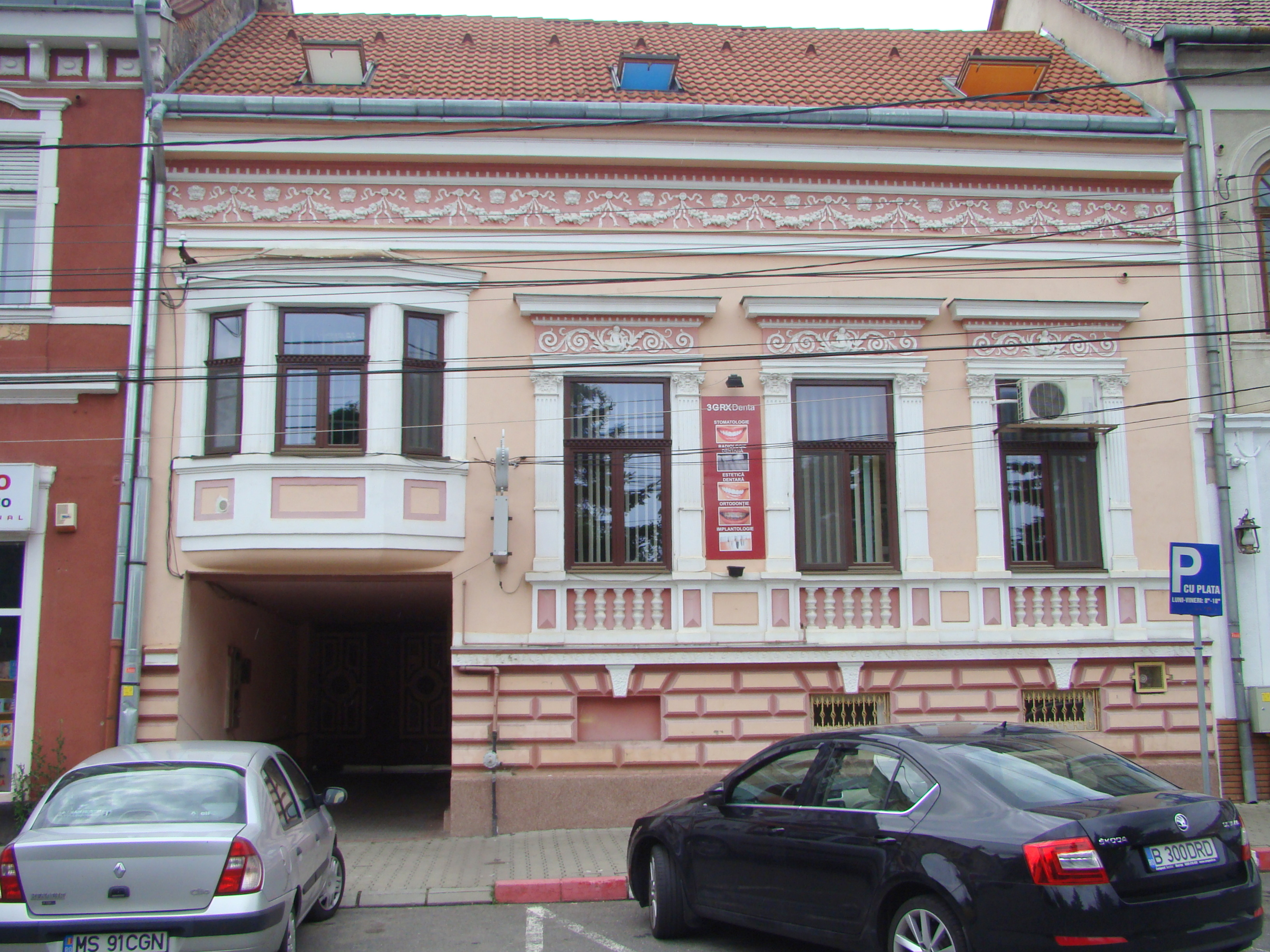 House, historic monument, in Reghin, Petru Maior square, nr.17